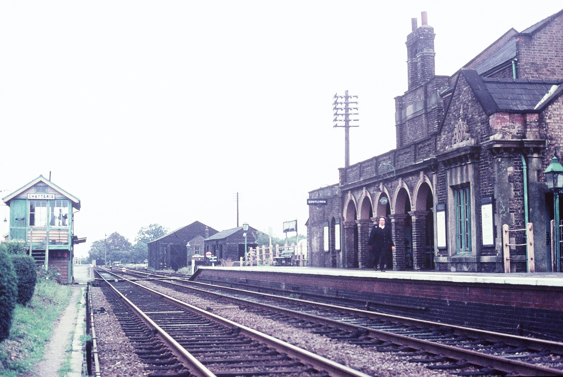 Looking north towards March at Chatteris railway station.